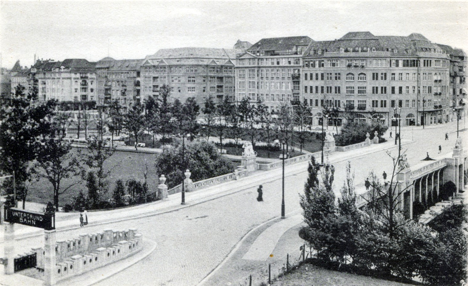 Berlin, underground station Stadtpark (now Rathaus Schöneberg)